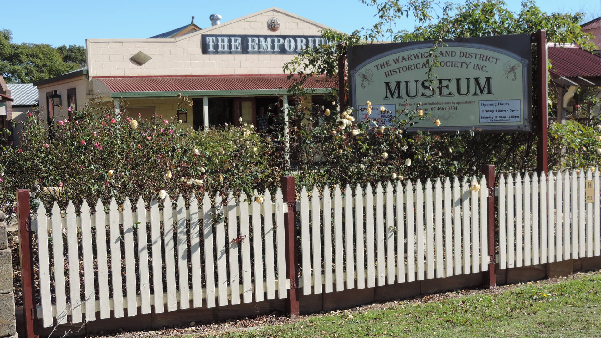 The Emporium, Pringle Cottage Museum, Warwick, 2015